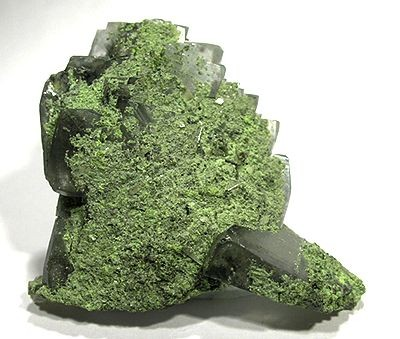 Anglesite, Duftite Locality: Tsumeb Mine (Tsumcorp Mine), Tsumeb, Otjikoto (Oshikoto) Region, Namibia (Locality at ) Size: 4.6 x 3.5 x 1.2 cm. A fine, well-terminated anglesite crystal with fine luster! The back of the crystal is coated with Duftite. Ex. Willy Israel Collection.